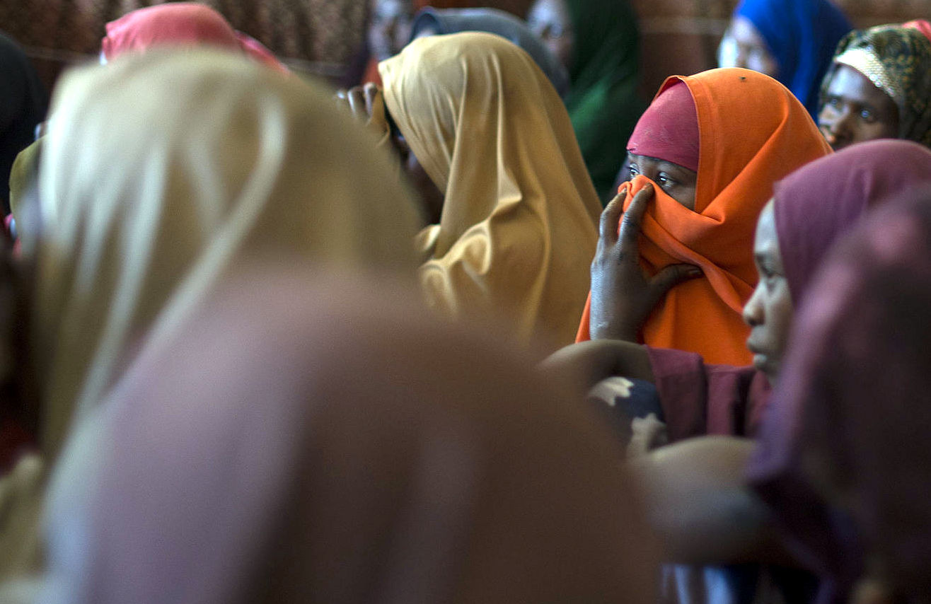 A woman listening to community mobiliser Safiya Abukar Ali conducting an awareness session at Walalah Biylooley camp. A 2013 UNICEF report stated that 98% of women aged between 15-45 years had undergone the procedure.